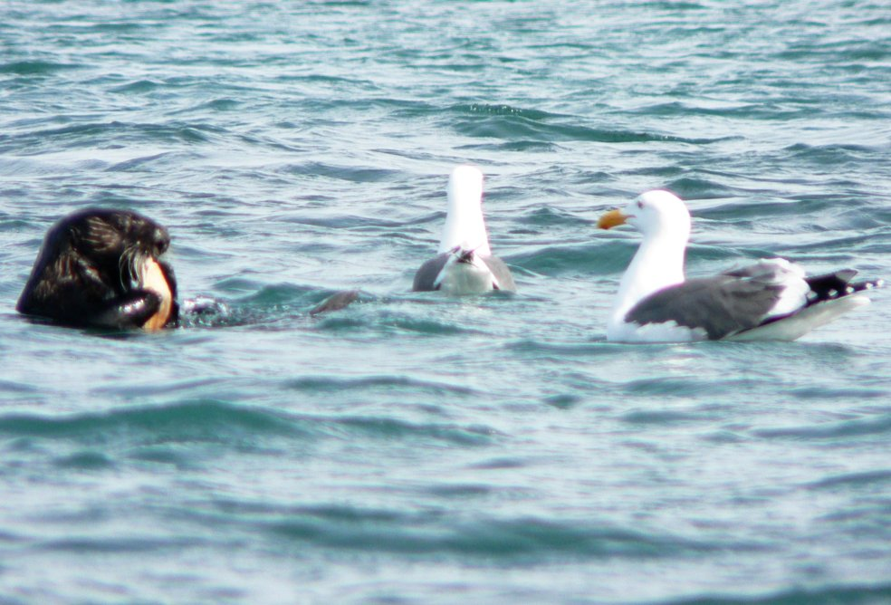 Sea otter eating in Elkhorn Slough, California